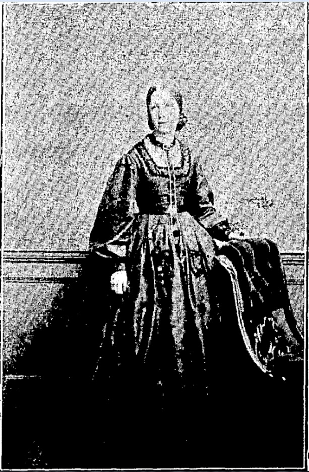 Caroline Frances Allen, wife of New Zealand architect George Frederic Allen. 1903 Mrs. Goorge Frederic Allen (New Zealand Illustrated Magazine, 01 April 1903). Alexander Turnbull Library, Wellington, New Zealand.